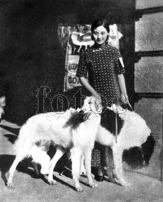 A girl with her dog in shanghai (1930s)